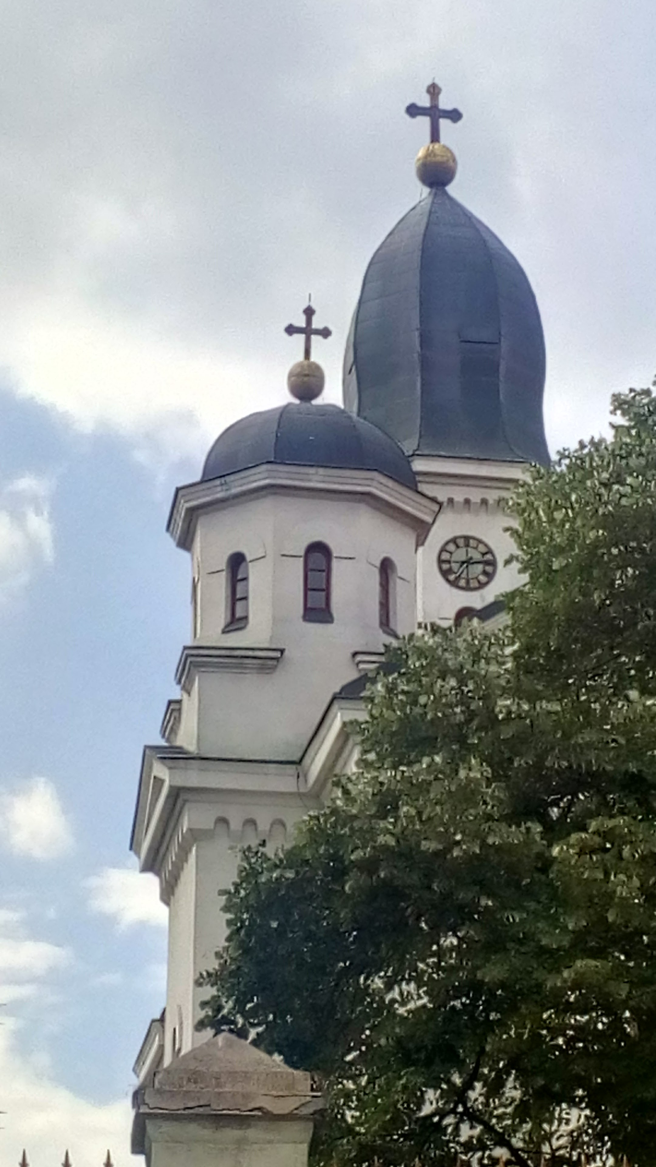 Holy Trinity Church in Grocka (Belgerade, Serbia)